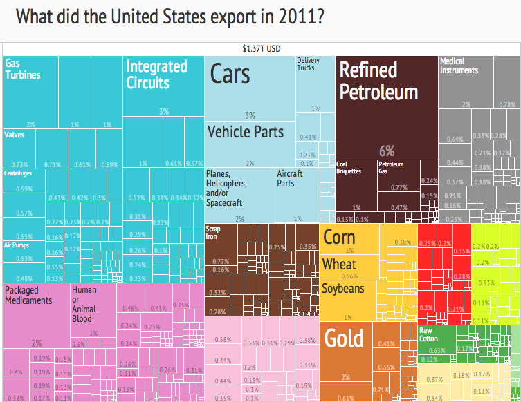 United States Export Treemap from MIT Harvard Atlas of Economic Complexity